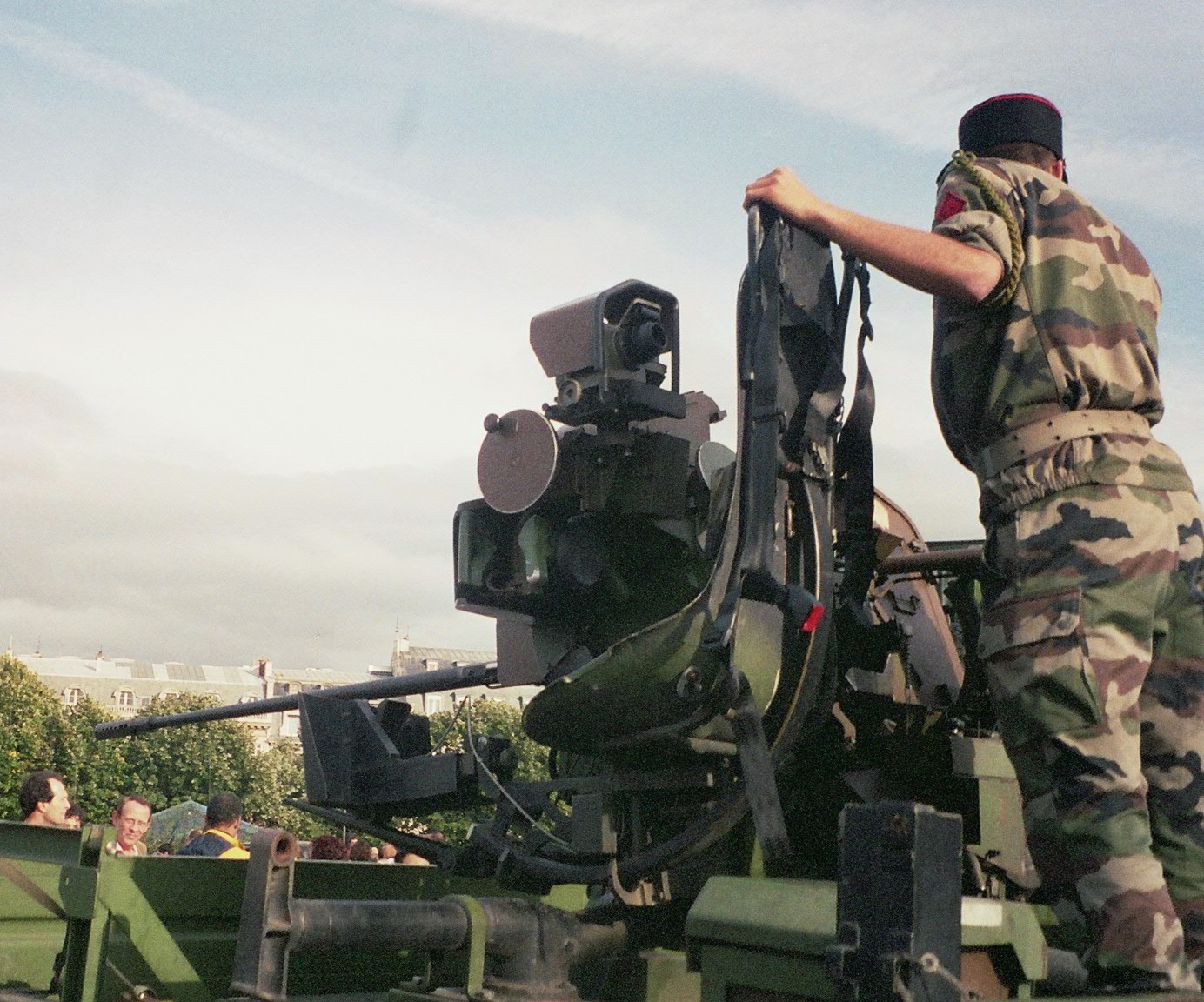 Anti-aircraft cannons of 20 mm, Nation/Defense days, Esplanade des Invalides, Paris, France, September 24-25, 2005